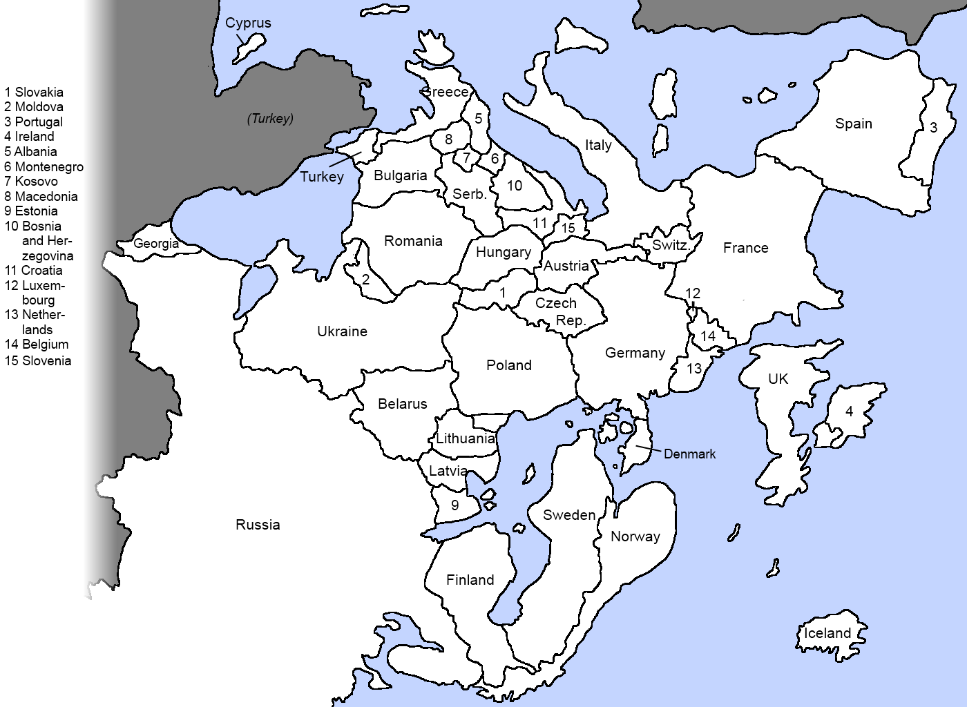 Map of Europe rotated 180 degrees vertically.